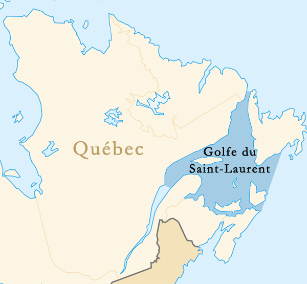 Map Gulf of Saint Lawrence, Quebec